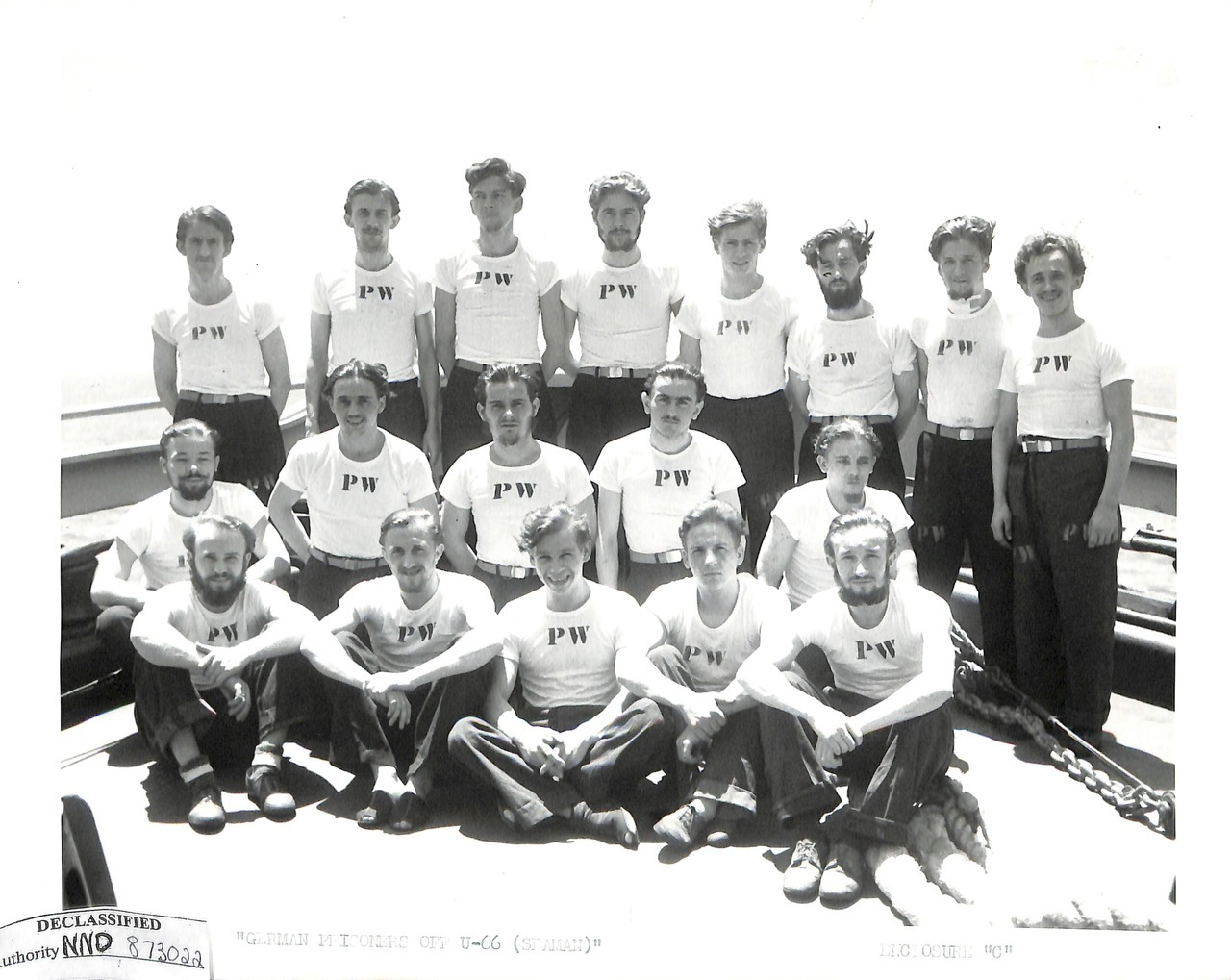 Lower ranking Petty Officers and below POWs from U-66 aboard USS Block Island, (from left to right) (back row) Maschinenobergefreiter-E Willi Hahner, Mechanikerobergefreiter Helmut Illing, Maschinengefreiter-E Fritz Buttgereit, Funkgefreiter Gottlieb Melmuka, Maschinengefreiter-D Helmuth Rautenberg, Maschinenobergefreiter-D Günther Schmidt, Matrose II – Masch. Herbert Teuscher, Maschinenobergefreiter-E Heinz Lehmann, (middle row) Matrosengefreiter Leonhard Burian, Maschinengefreiter-D Hans Hoffmann, Maschinenobergefreiter-D Anton Klaus, Matrosenobergefreiter Kurt Fickel, Matrosengefreiter Helmuth Künkel, (front row) Maschinenobergefreiter-D Horst Koch, Matrosenobergefreiter Vinzenz Nosch, Matrosenobergefreiter Walter Drewek, Funkobergefreiter Harry Schönel, Maschinenobergefreiter-E Helmut Löser, (not shown - Matrosenobergefreiter Heinrich Haller)